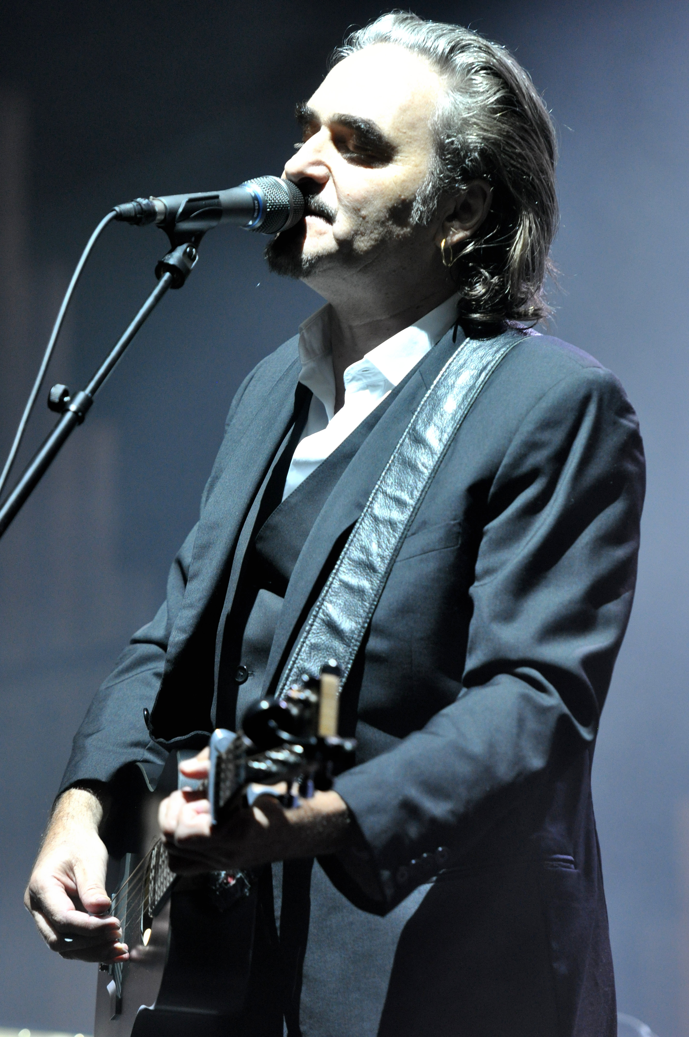 Stephan Eicher und die Automaten (SUI), 40th music festival 'Bardentreffen' 2015 at Nuremberg, Germany Festivalsommer This photo was created with the support of donations to Wikimedia Deutschland in the context of the CPB project "Festival Summer".